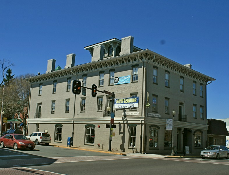 Culpeper (VA), A. P. Hill's house